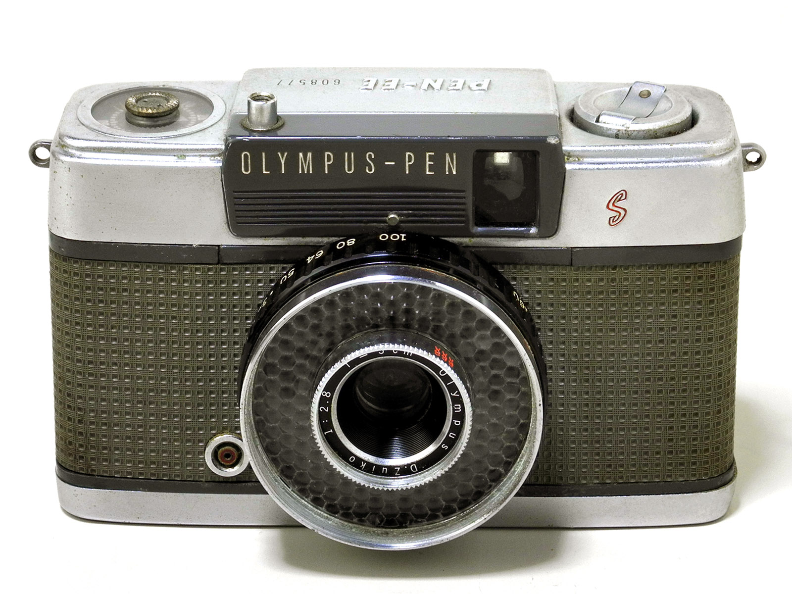 Olympus Pen EES